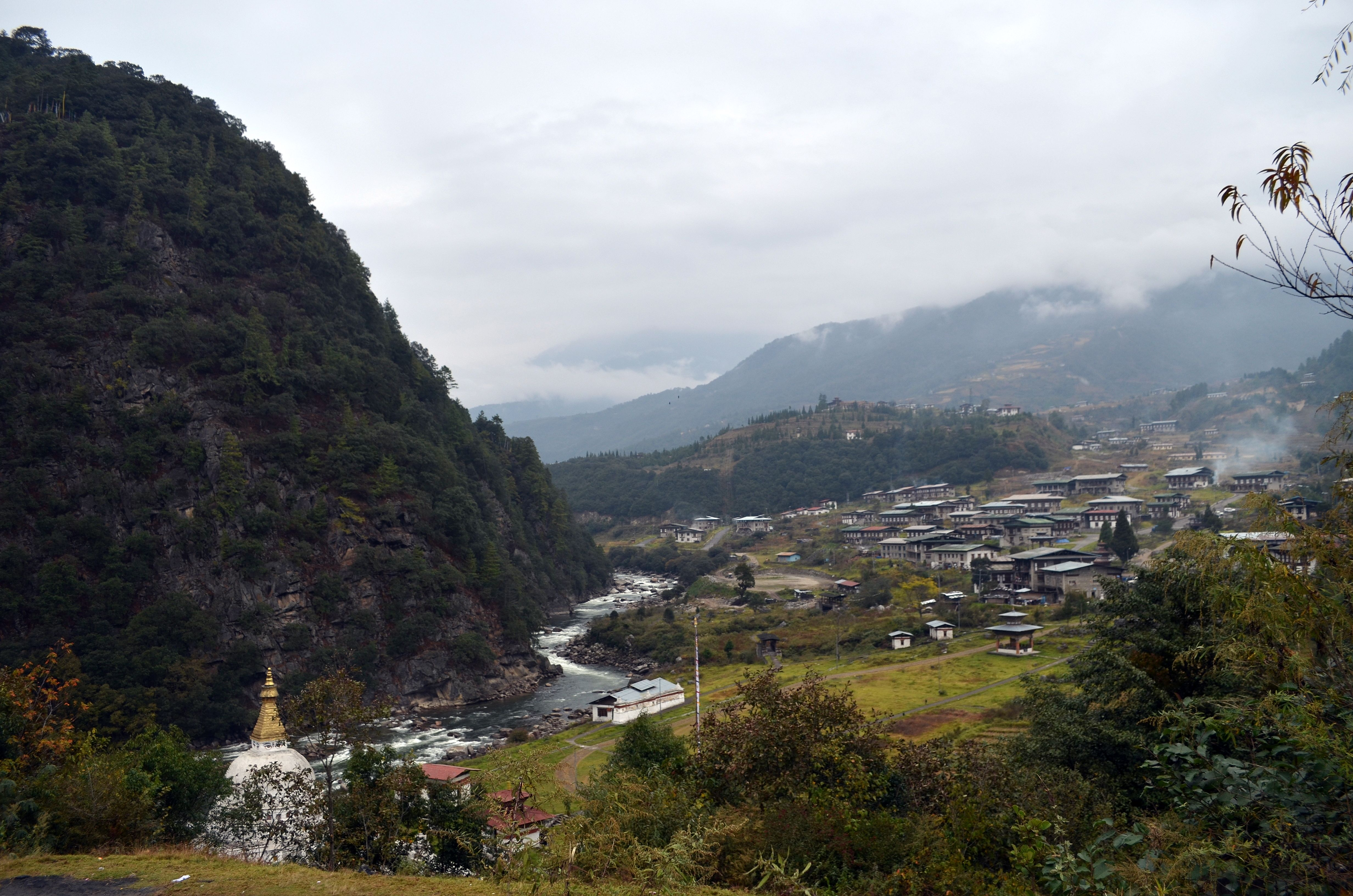 A view of Tashi Yangtse (Chorten Khora) town in Bhutan